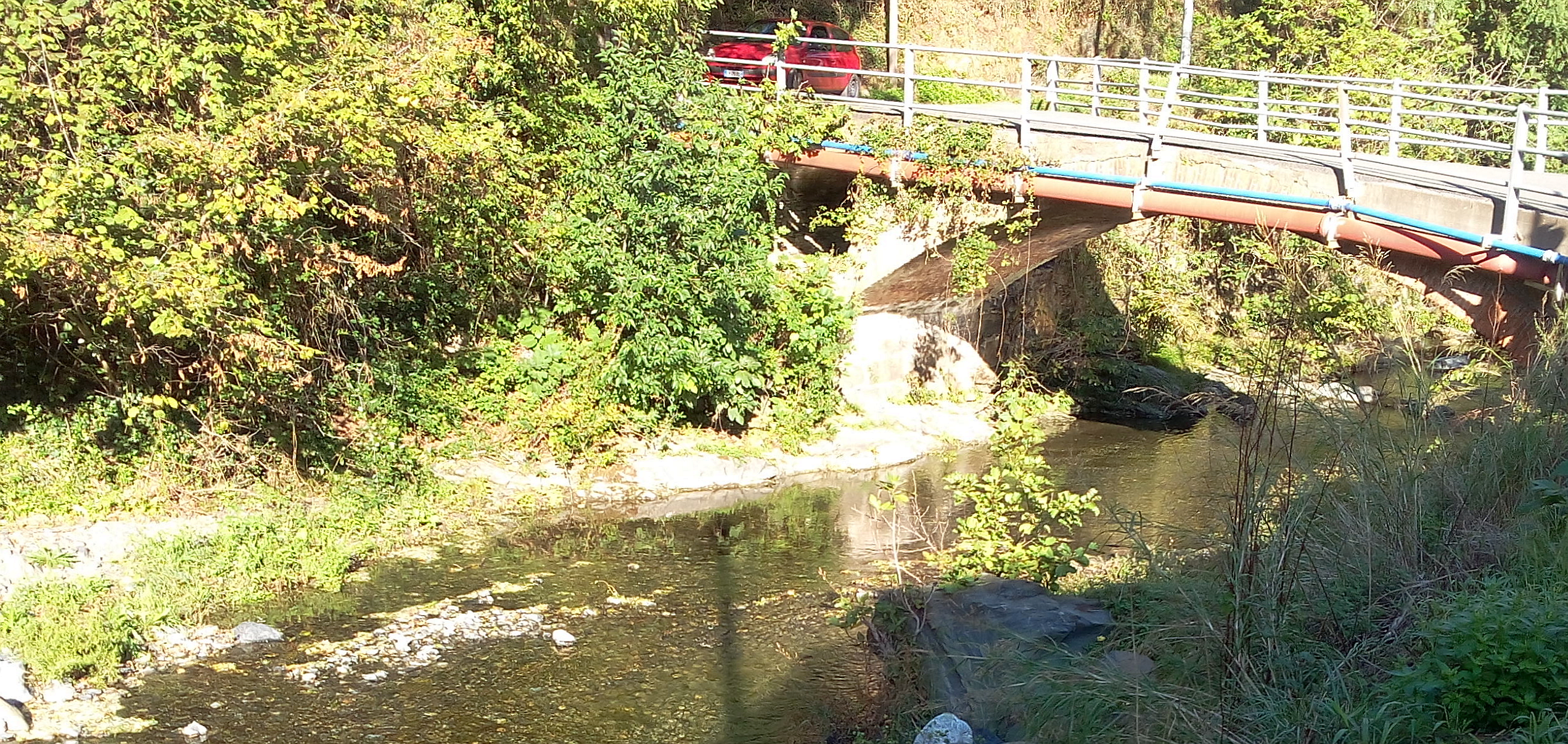 Bridge on the totrente Lerone near Case Soprane (GE, Italy)